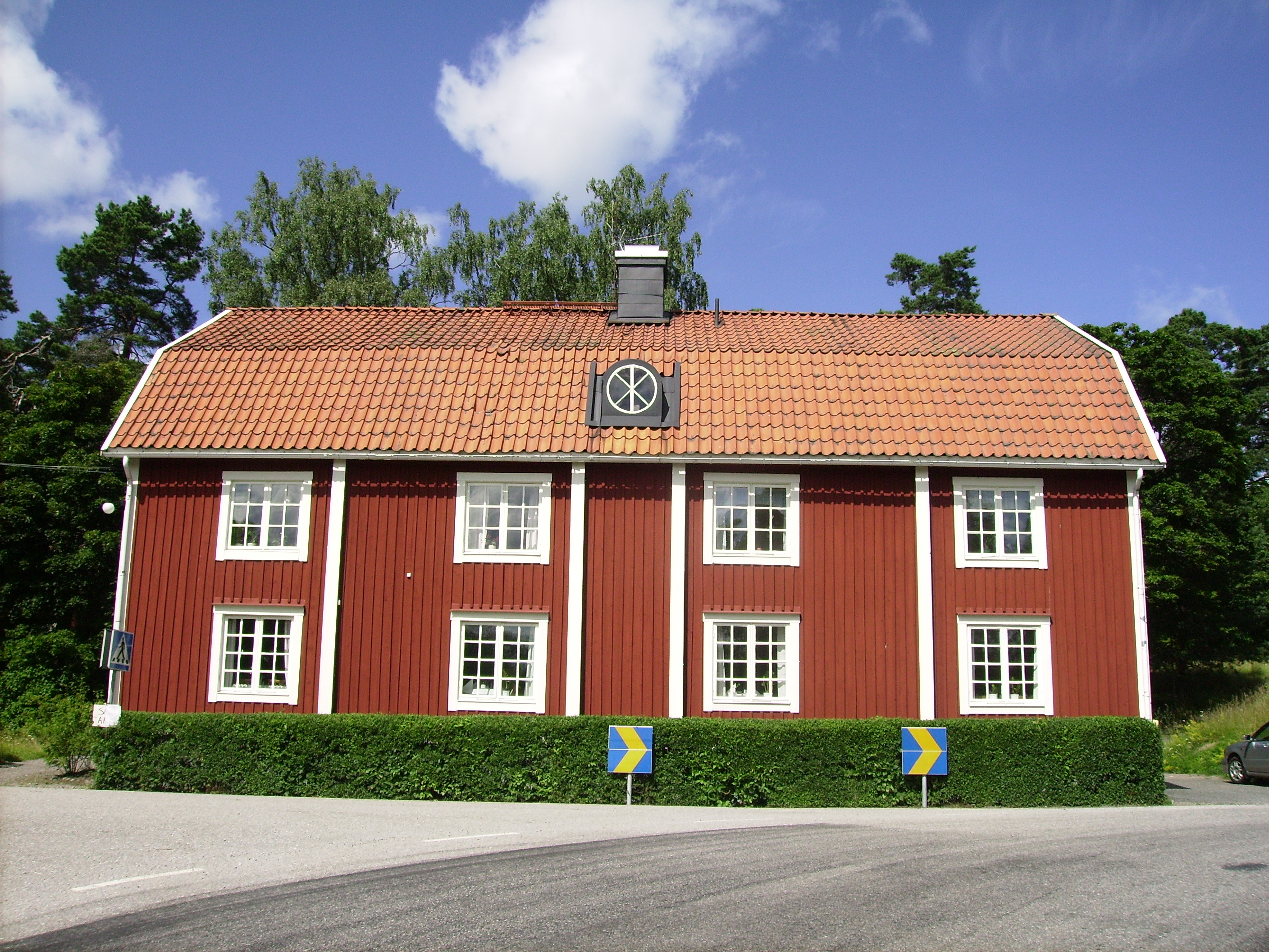 Picture of Vårdinge församlingshem in Södermanland